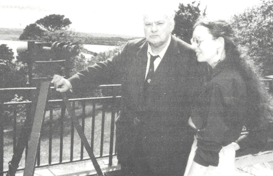 Fiona Vincent and Dr. Patrick MooreMills